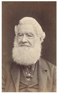 Samuel Bowly (1802–1884) was an English slavery abolitionist and temperance advocate.